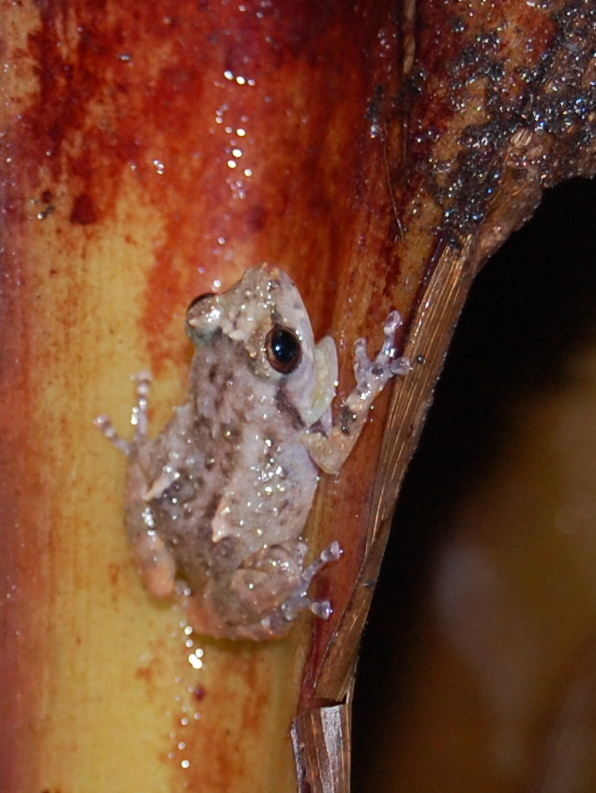 Male common dink frog (Eleutherodactylus diastema), so-called because of the loud metallic "dink" sound that it makes at night, spotted in the wild at night in the Osa Peninsula, Costa Rica.